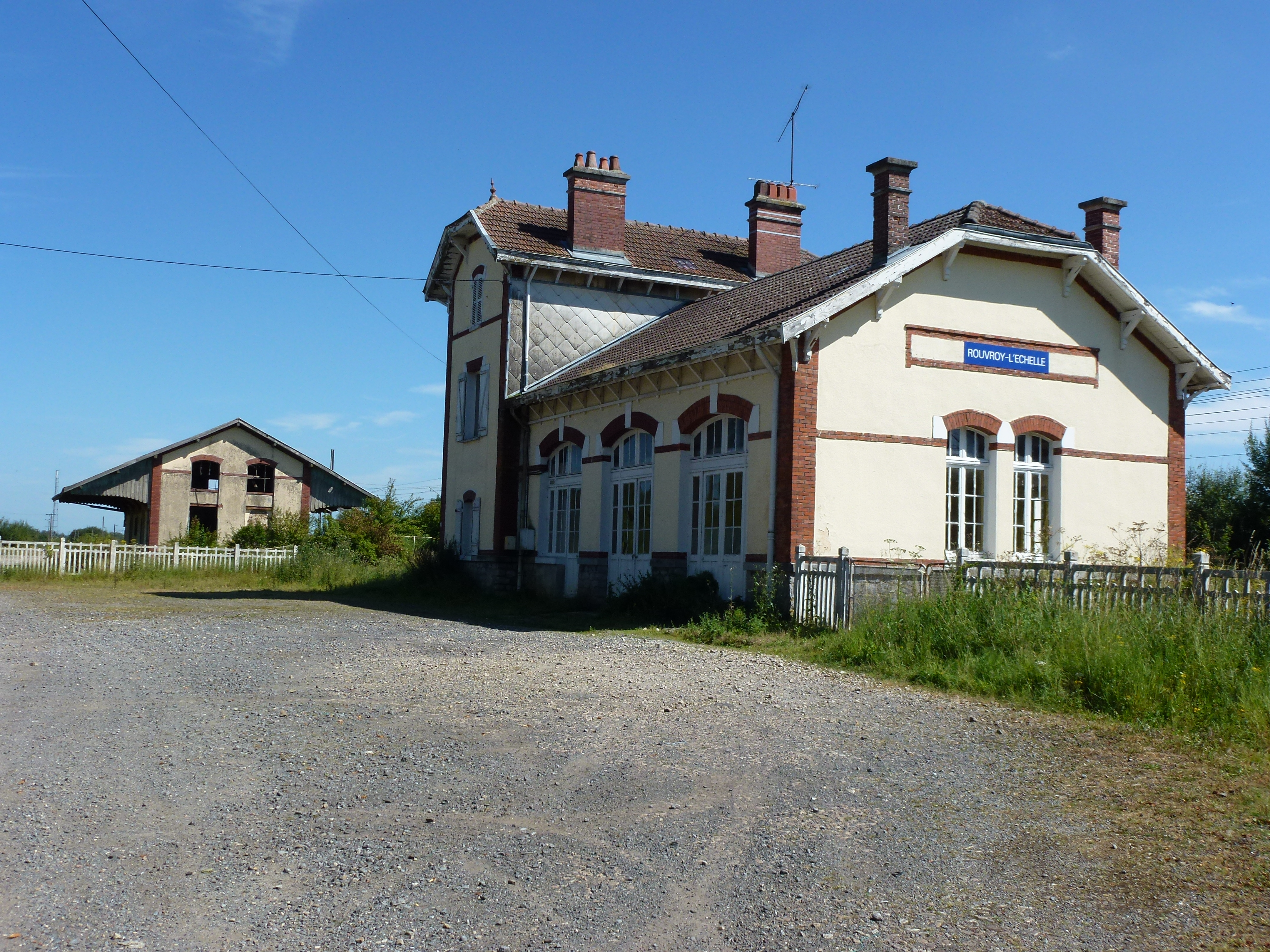 Rouvroy-sur-Audry (Ardennes) gare Rouvroy-L'Échelle